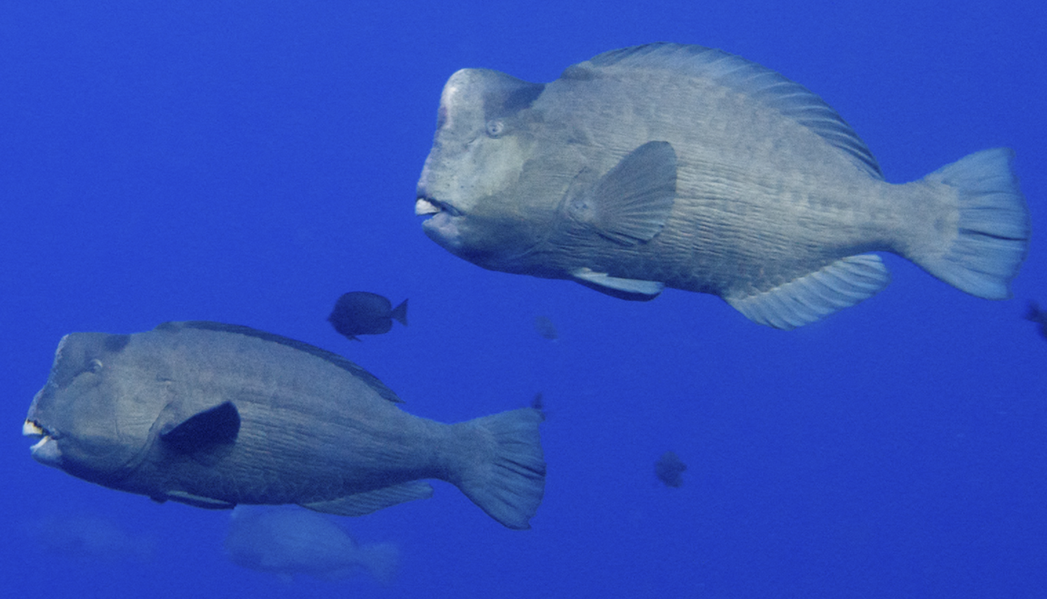 Sexual dimorphism in Bolbometopon muricatum